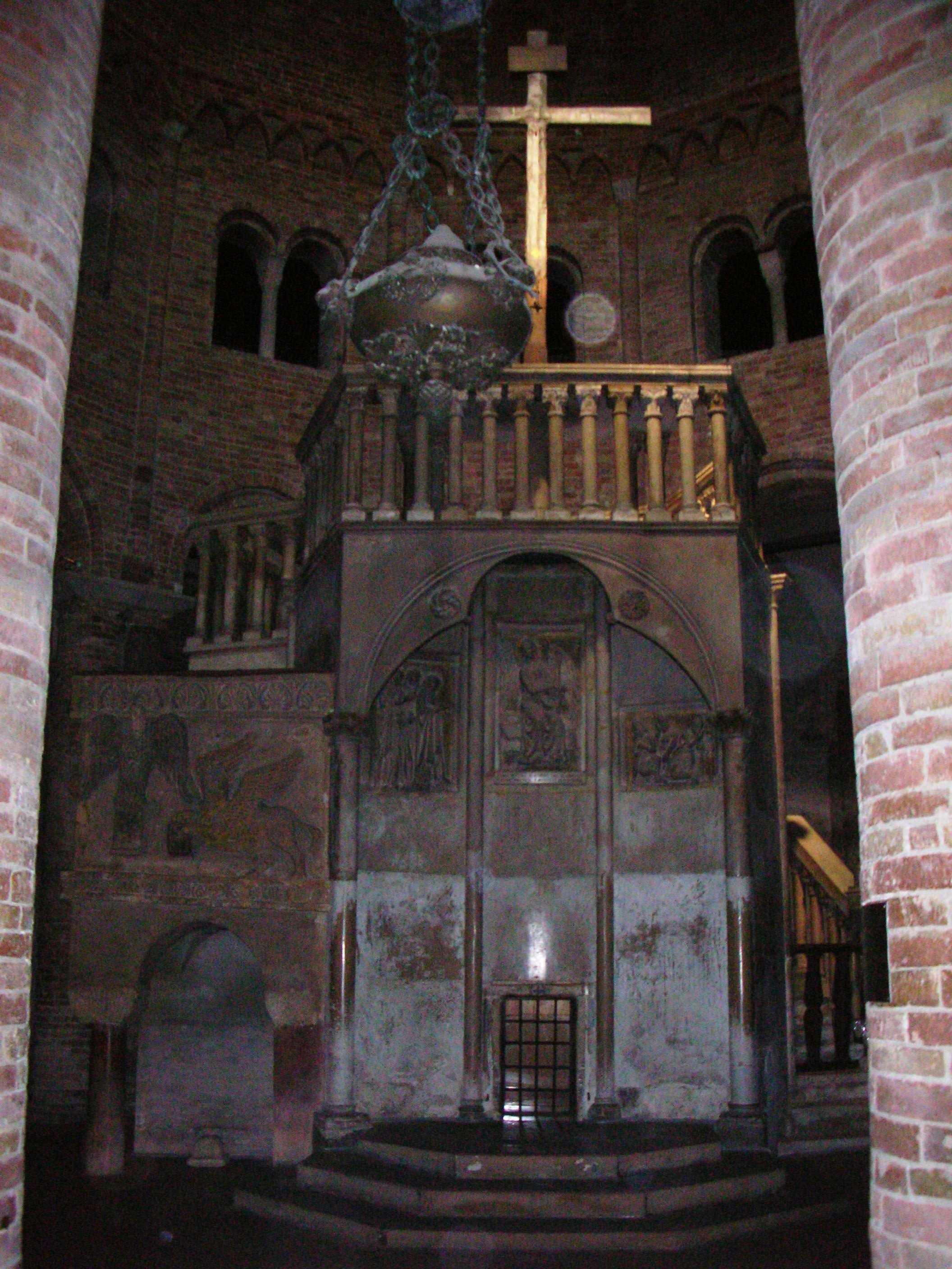 Buildings of Saint Stephen's Basilica in Bologna, Italy, also known as "The Seven Churches". In this picture, the old pulpit, within the building called "Basilica del Santo Sepolcro".